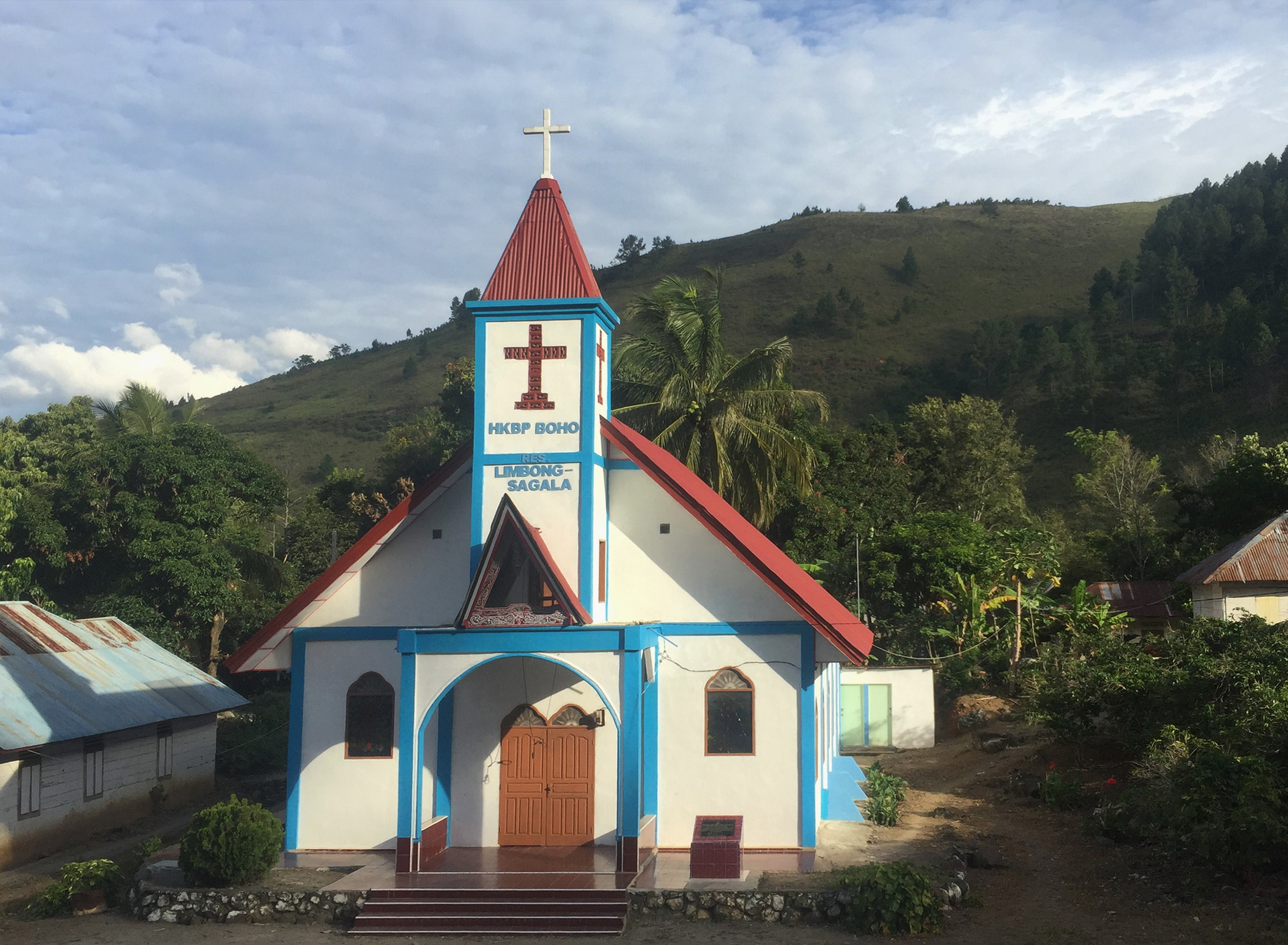 HKBP Boho, Church in Boho, Sianjur Mulamula, Samosir